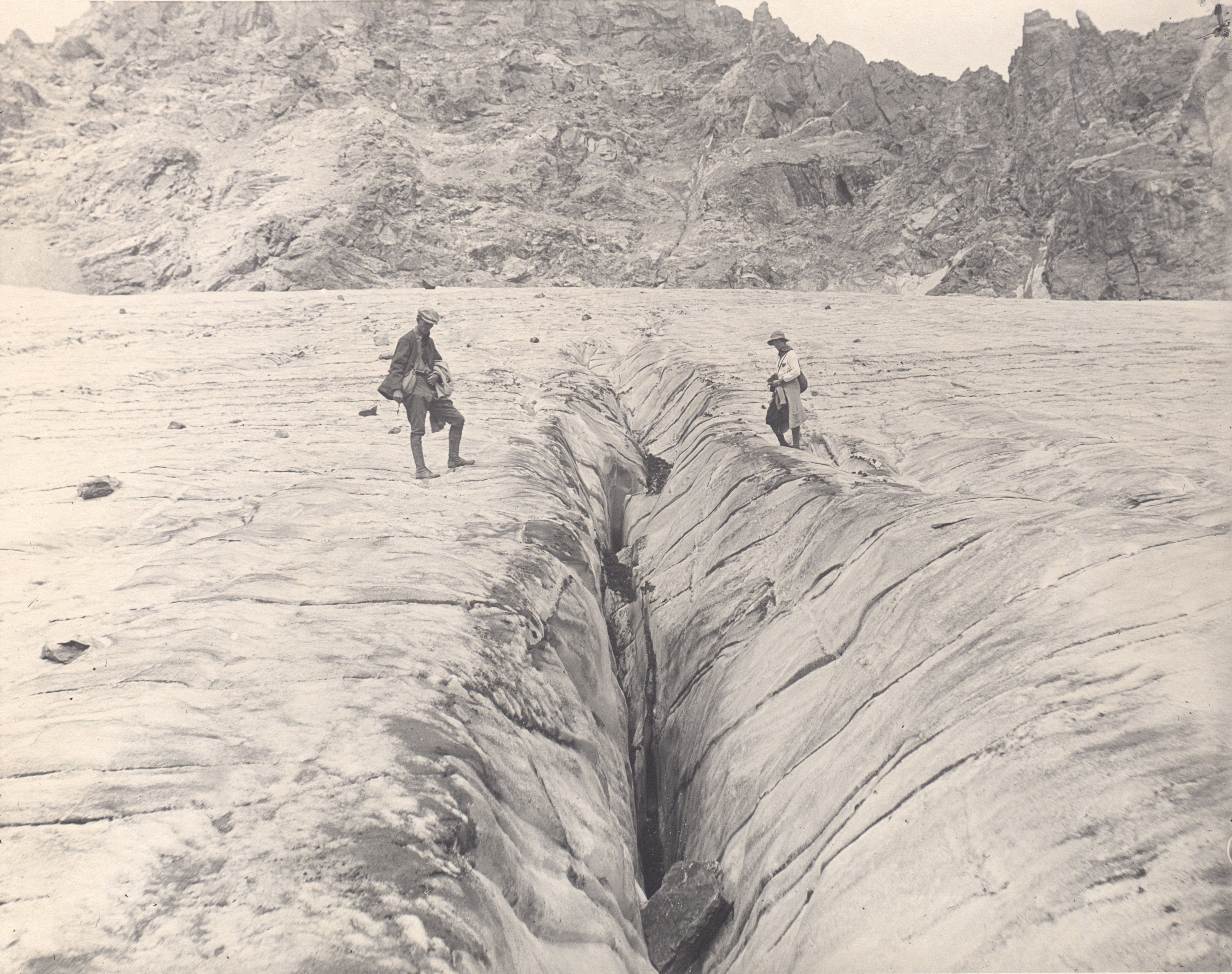 Photo ID: arapaho1919090111 Glacier Name: Arapaho Glacier Province: CO Country: USA Latitude: 40.02220 Longitude: -105.64720 Photo Date: 1919-09-01 Image Dimensions(pixels): 4528px x 5725px Image Type: JPG (converted from TIFF) Image Filesize: 77773072 bytes Documentation: Photographer Name: Henderson, Junius Source: CU Museum Publisher: National Snow and Ice Data Center/World Data Center for Glaciology, Boulder Rights: Photograph held by the National Snow and Ice Data Center/World Data Center for Glaciology, Boulder. May be used freely if properly cited. Citation: Henderson, Junius. 1919. Arapaho Glacier: From the Glacier Photograph Collection. Boulder, Colorado USA: National Snow and Ice Data Center/World Data Center for Glaciology. Digital media.